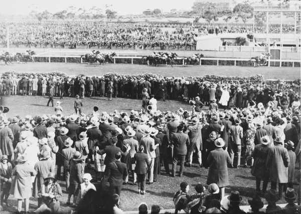 Phar Lap winning the Melbourne Cup Race from Second Wind and Shadow King on 5th November, 1930. Shows horses going over the finishing line viewed from over the heads of the crowd.